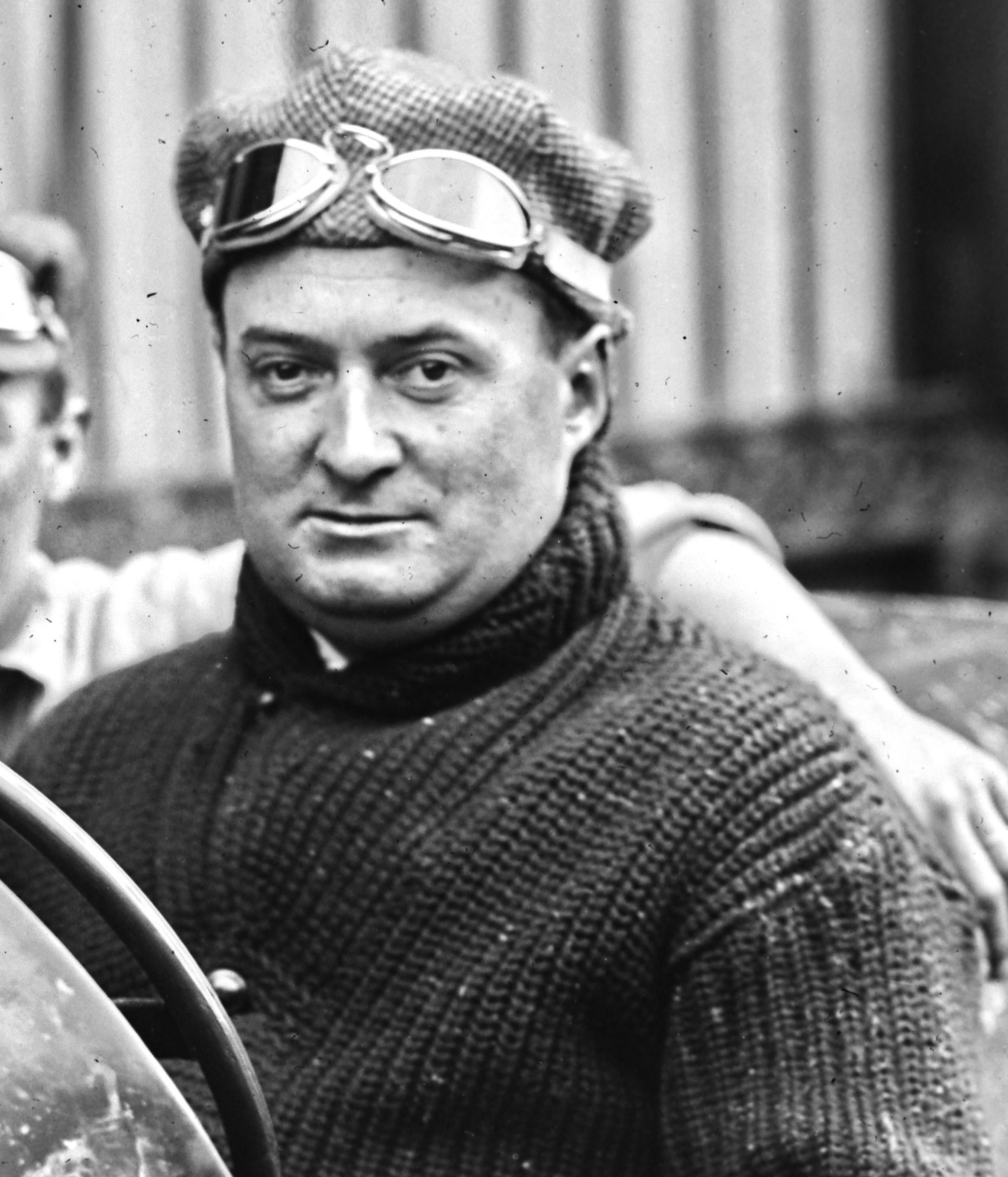 Albert Guyot at the 1922 French Grand Prix